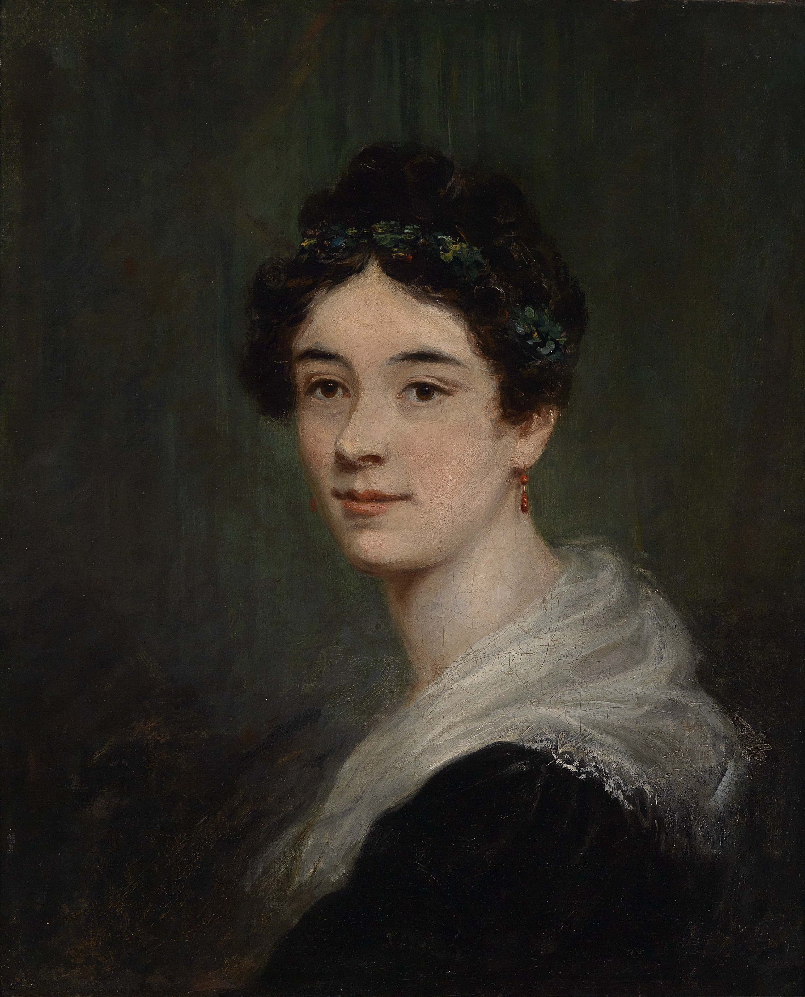 Miss Stevens Countess of Essex (as titled on old label, surely meaning Catherine Stephens, countess of Essex, 1794–1882), oil on canvas, 61,5 x 52,5 cm